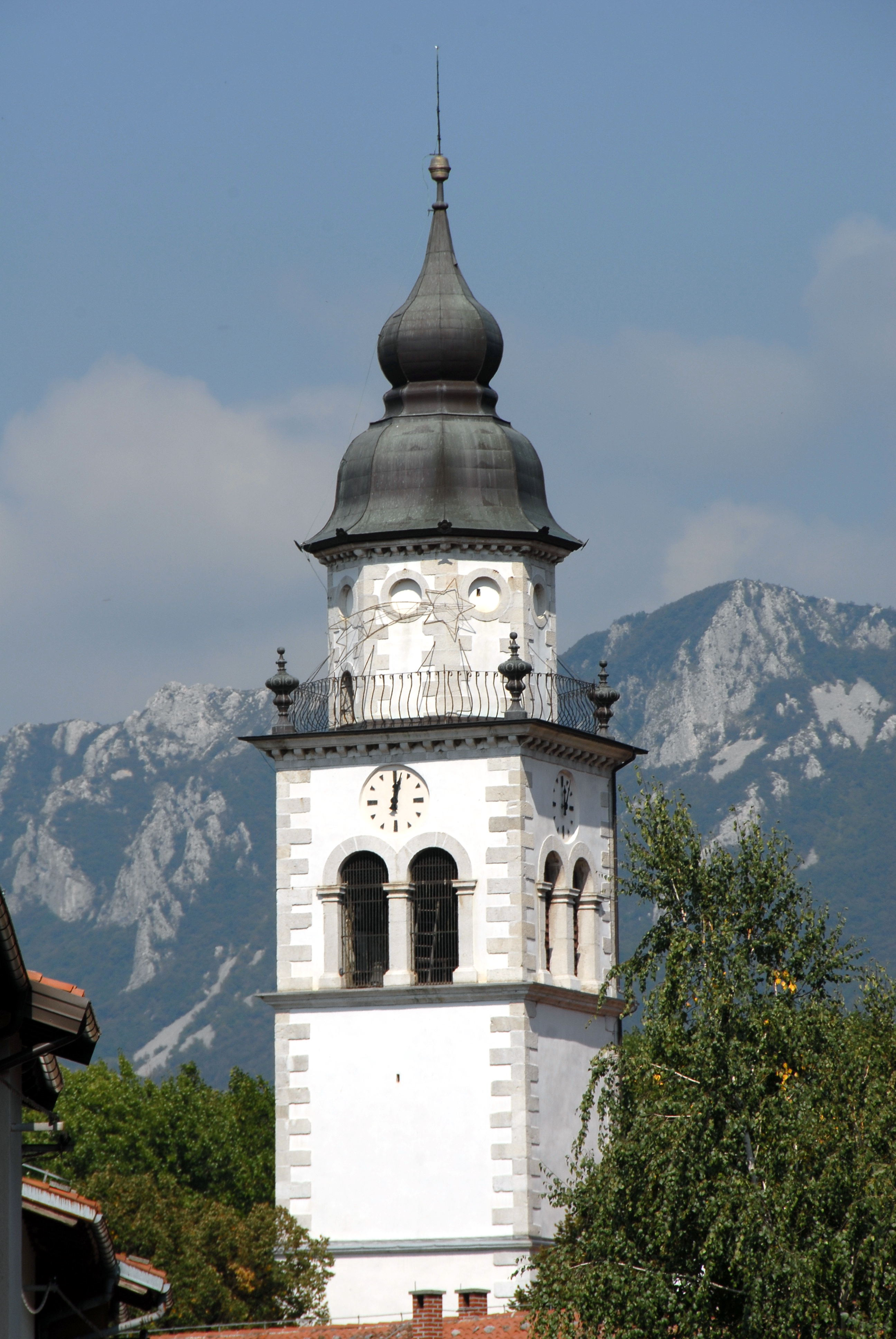 Steeple of the Saint Stephanus church in Vipava, Goriska, Slovenia